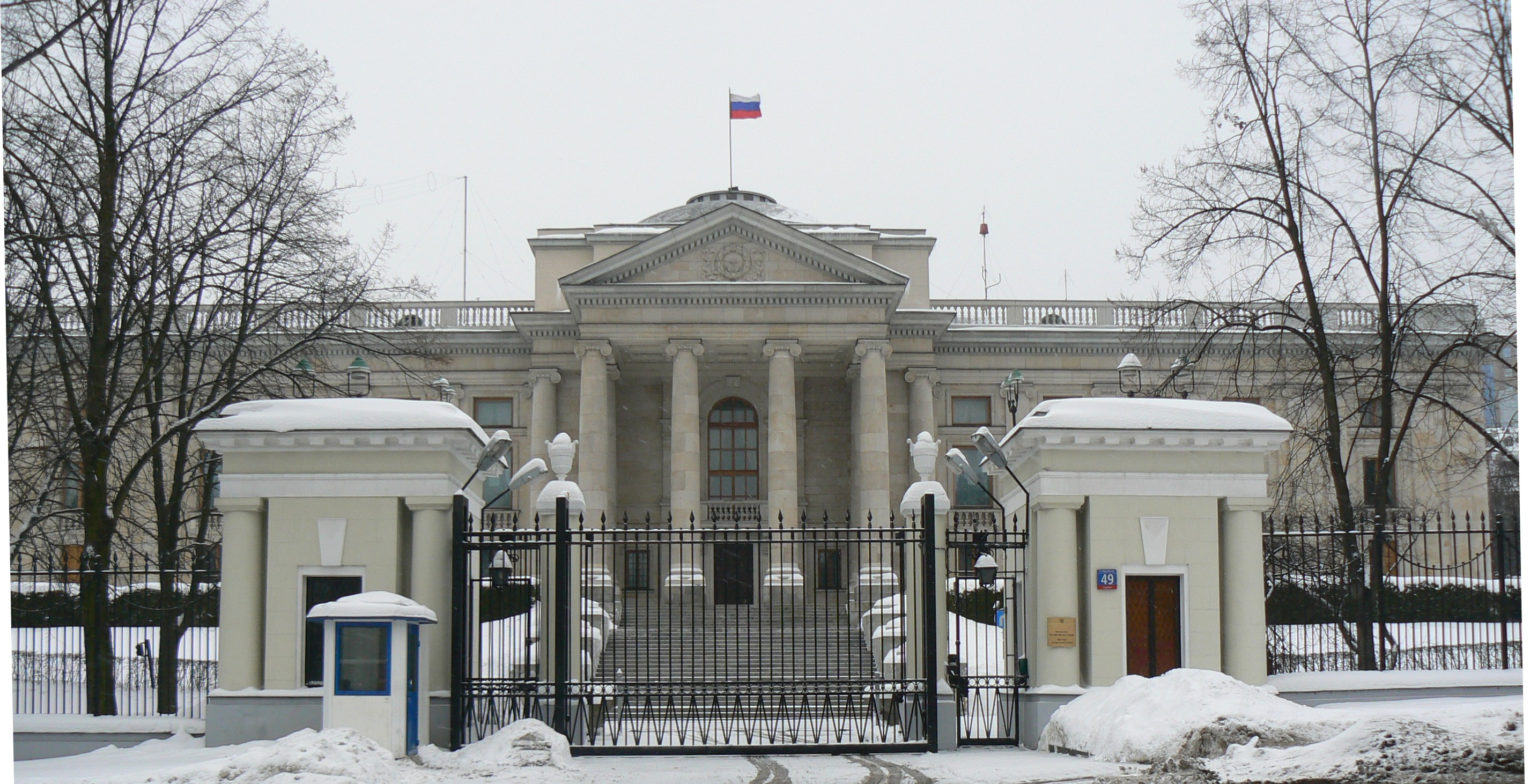 Russian embassy - Belwederska street side, main entry view